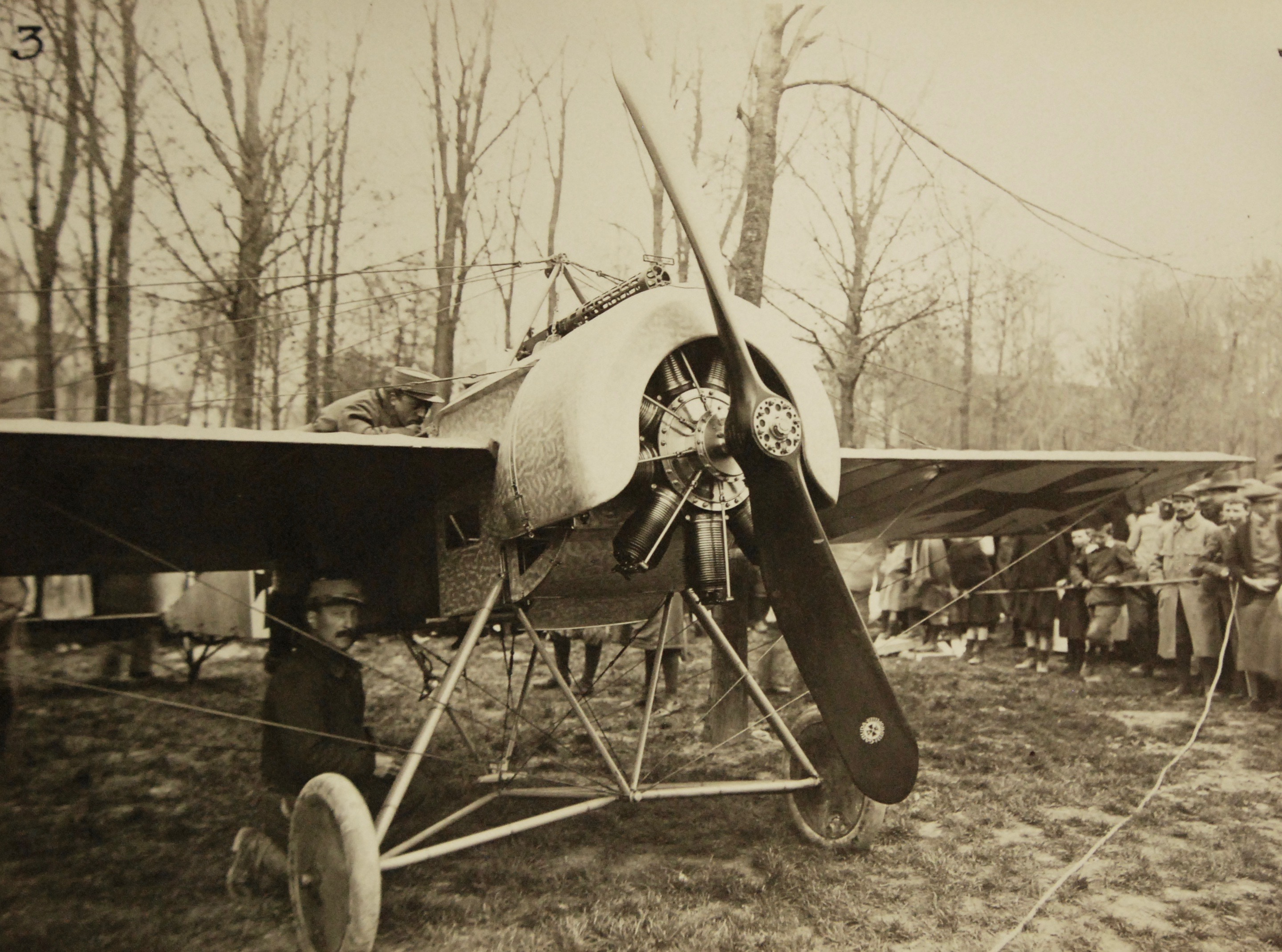 Lot-7584-3: WWI, Activities in France. Fokker E.111(M.14V) monoplane downed behind Allied lines in France. Courtesy of the Library of Congress. (2016/09/30).